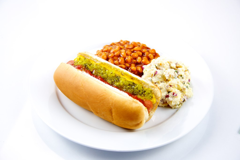 Hot dog with baked beans and potato salad